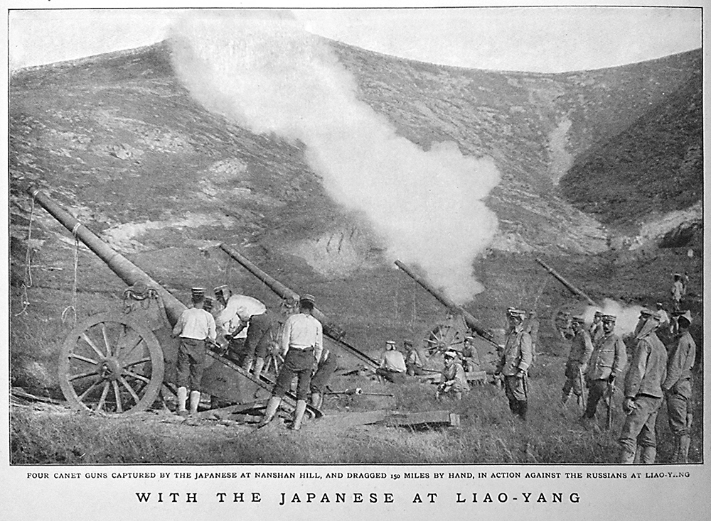 Four 42-line fortress and siege guns, Pattern of 1877, captured by the Japanese at Nanshan Hill, and dragged 150 miles by hand, in action against the Russians at Liaoyang during the Russo-Japanese War, 1904.